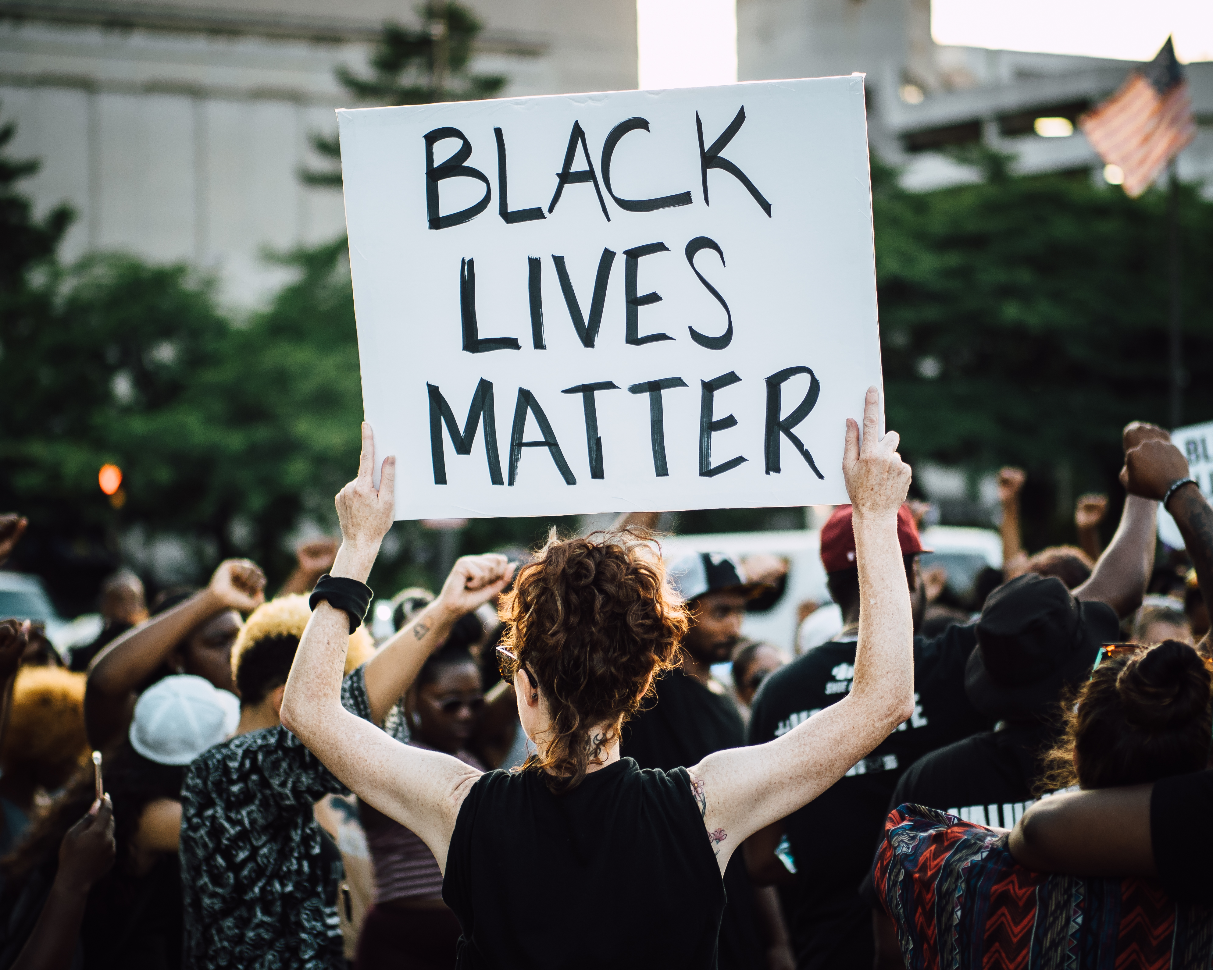 Frame from an unexpected encounter with Saturday's Black Lives Matter march through downtown Baltimore City.